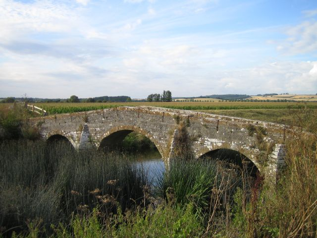 Pill Bridge, on the River Yeo, 2.3 km west of Ilchester in Somerset, an ancient pack-horse bridge, only wide enough to walk single file. Approacheed by Pill Bridge Lane.